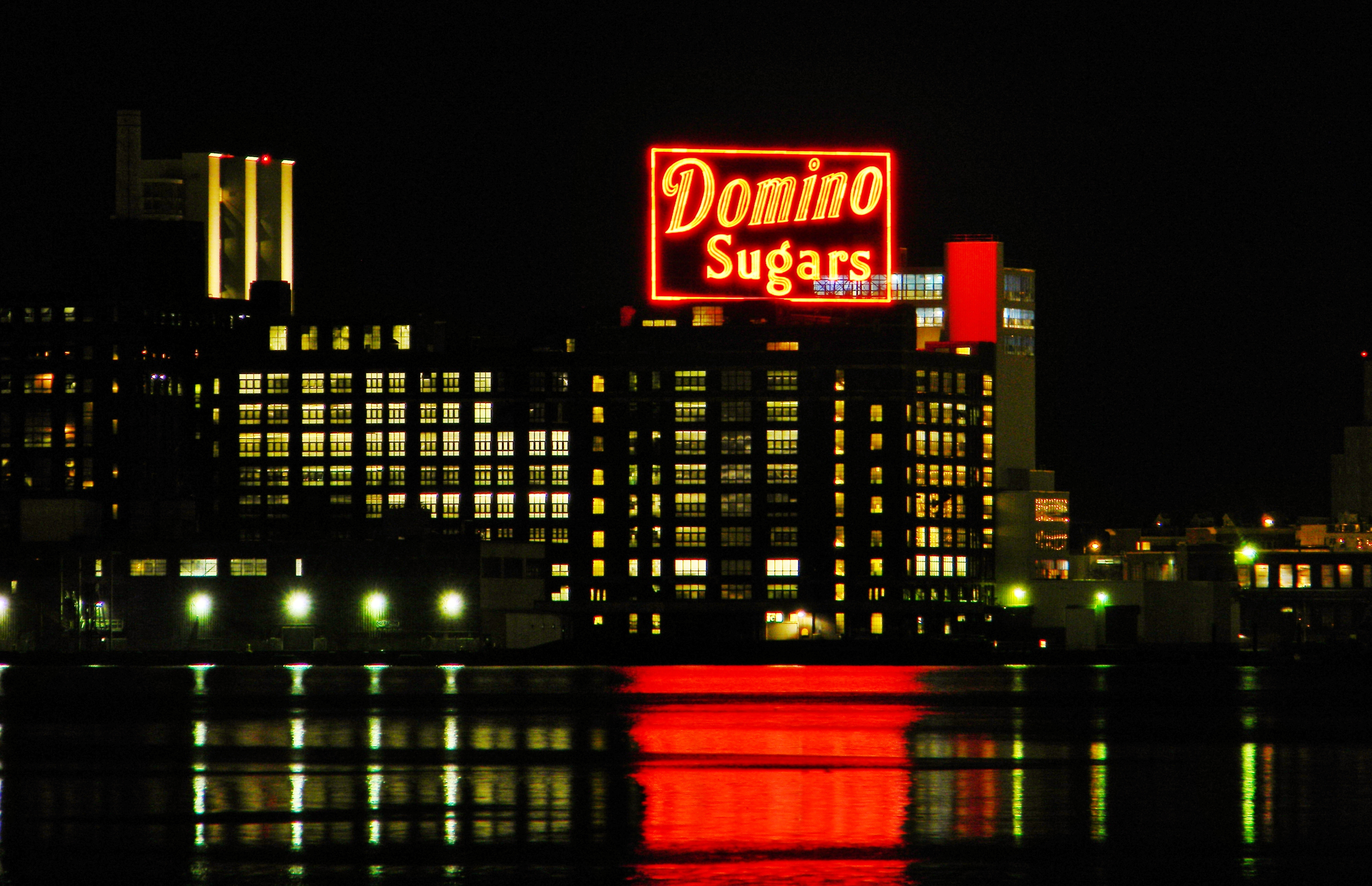 View more on Baltimore City - from Southeast Baltimore around the harbor waterfront to Ft. McHenry - on my blog David R. Crews' Ramblings + Photos at: email: ursusdave at yahoo dot com © David Robert Crews {a.k.a. ursusdave}